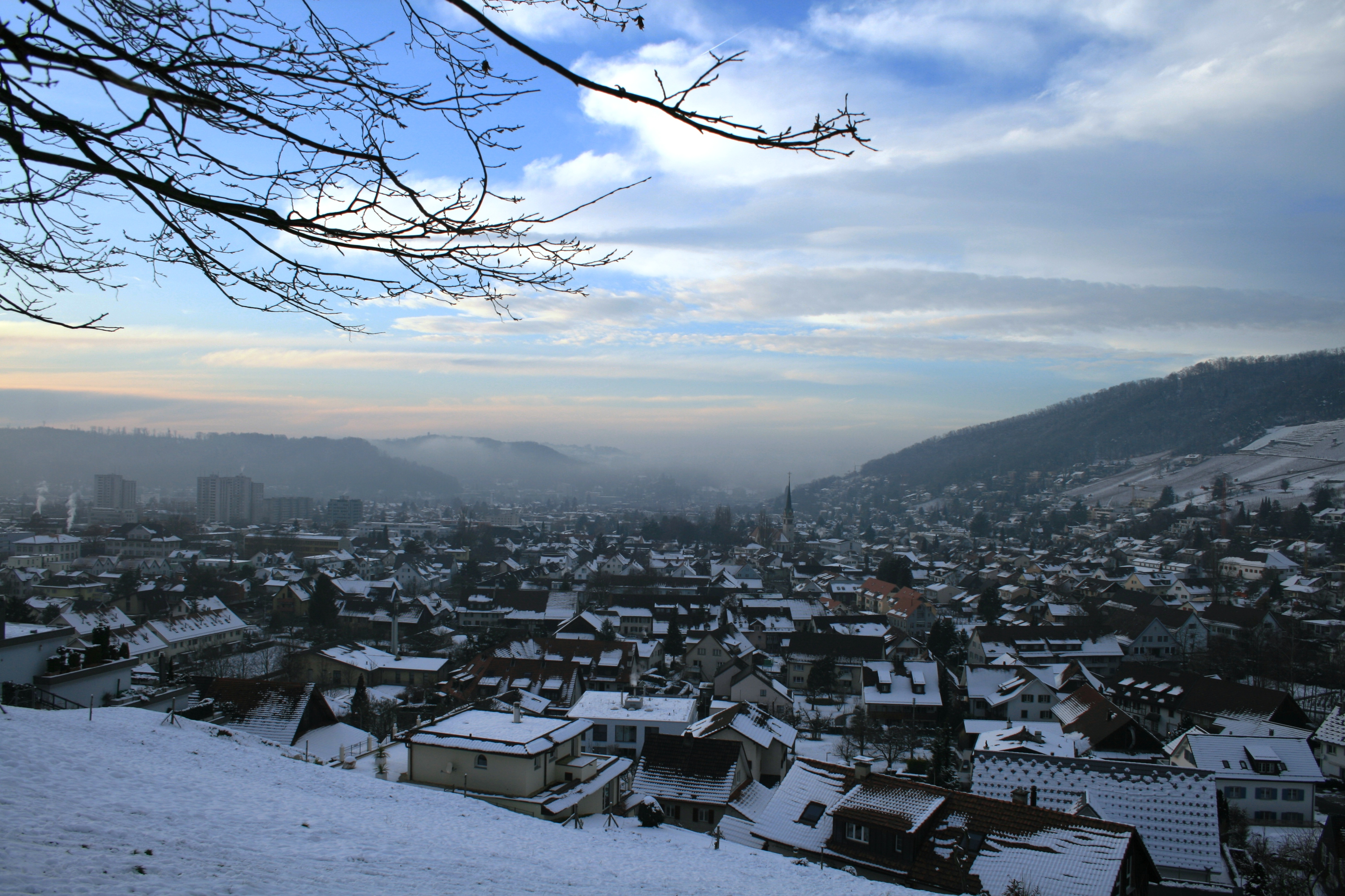 View from Sulperg to Wettingen, Switzerland